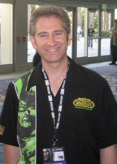 Mike Morhaime, President of Blizzard Entertainment @ BlizzCon 2007.Vi betalar din lunch gamle man.